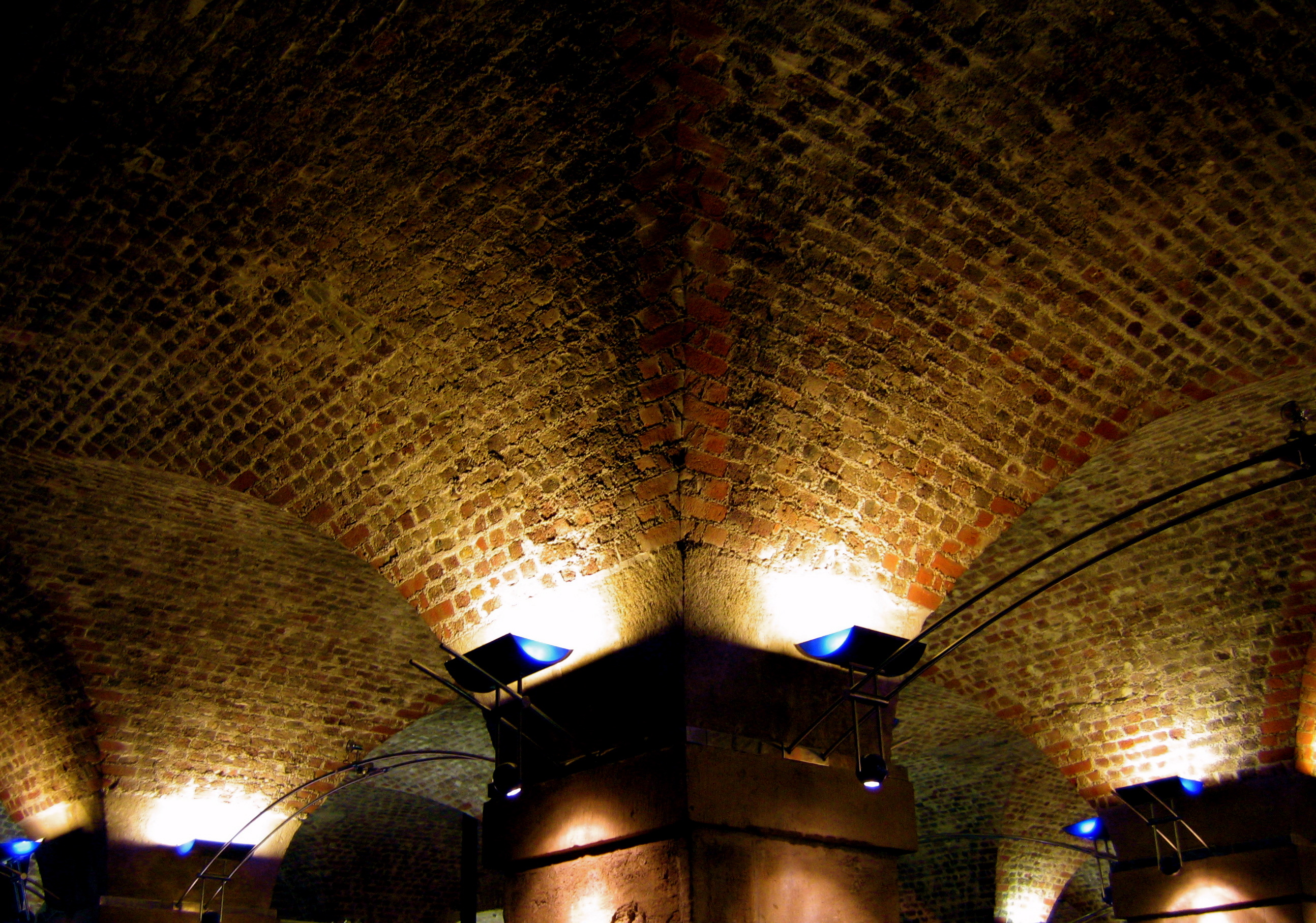 Interior of St Martin-in-the-Fields